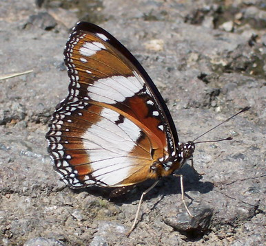 Hypolimnas missipus male, from Bogor, West Java, Indonesia